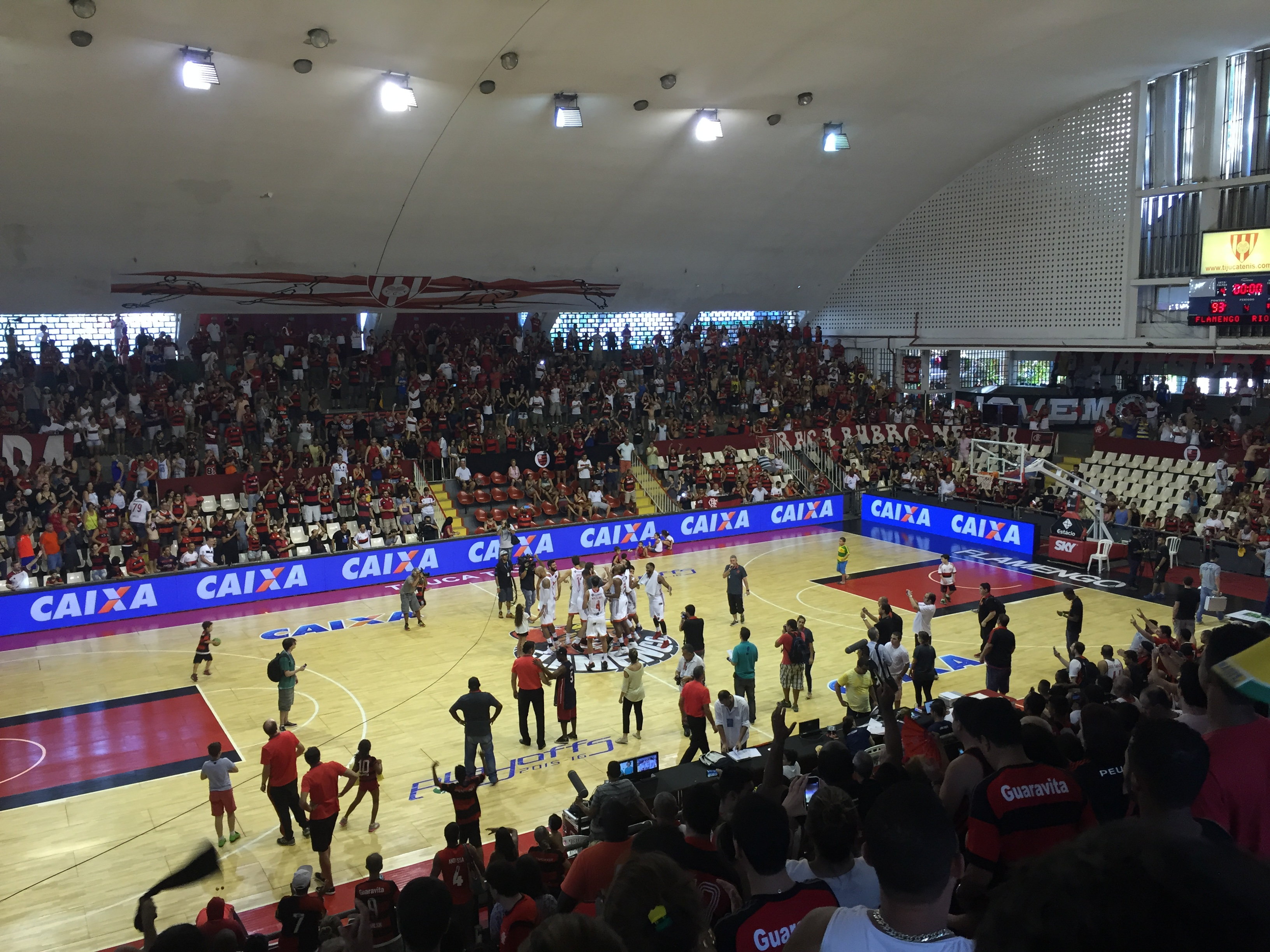 Flamengo players celebrate sweeping Rio Claro and advancing to NBB's semifinals on Ginásio Álvaro Vieira Lima